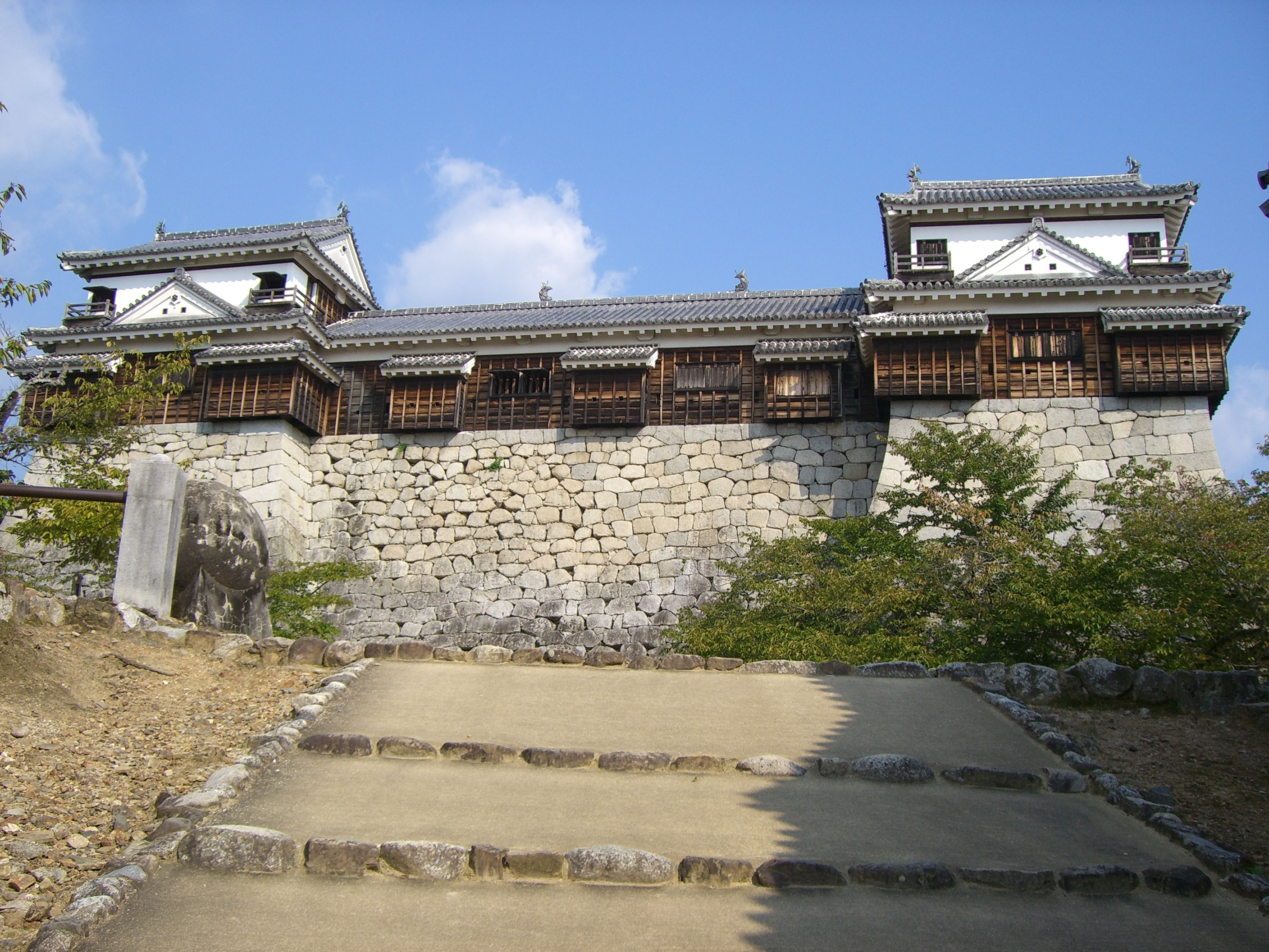 "MINAMI-SUMI-YAGURA(South-Corner-Turret)" , "JIKKEN-ROUKA(Jikken-Hallway)" and "KITA-SUMI-YAGURA(North-Corner-Turret)" The length of the hallway is ten ken(one ken=1.8182m) and it connects South Corner Turret and North Corner Turret. This hallway is the important defense turret against attack from the west side. ( Ehime JAPAN)